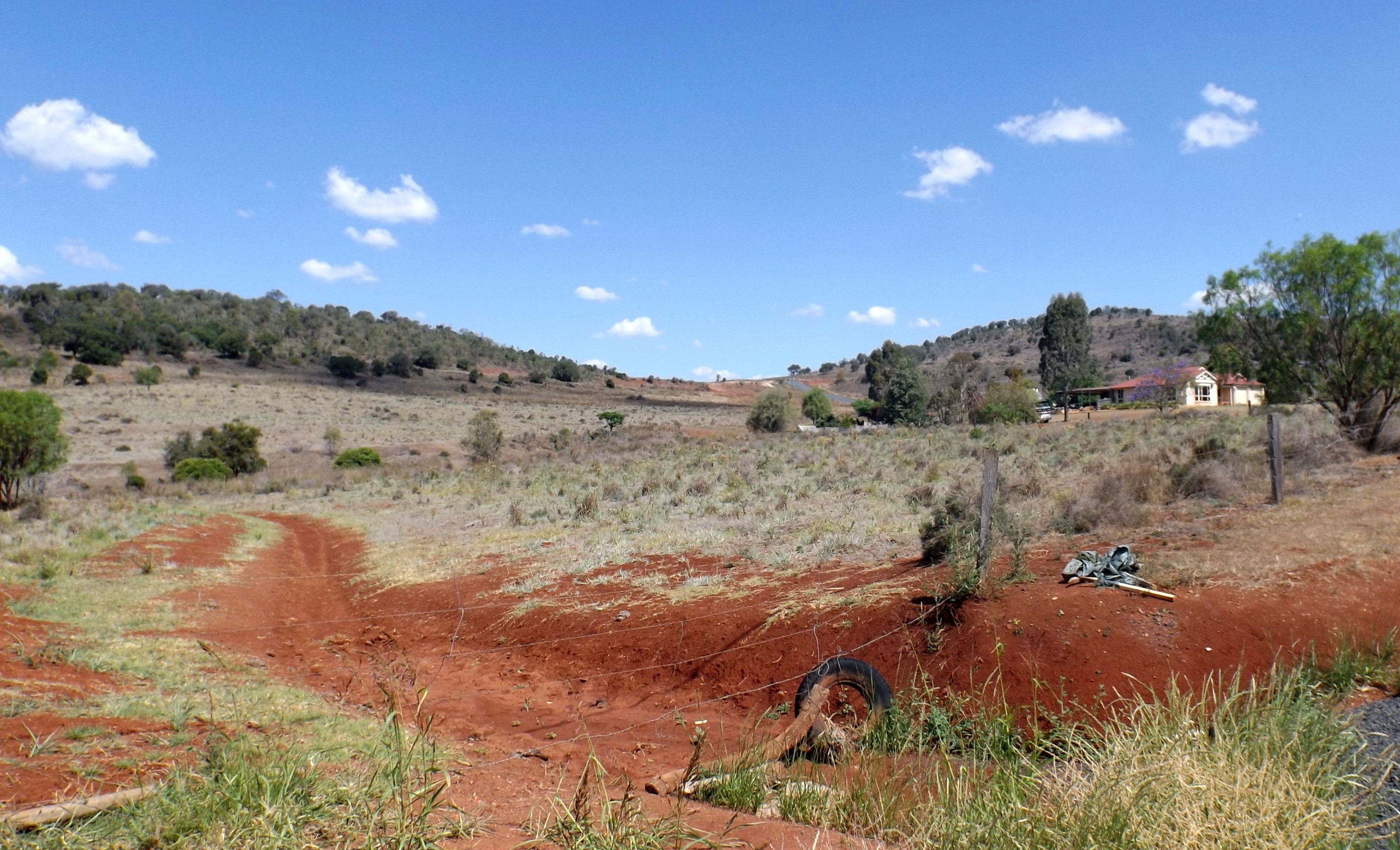 Photo of a rural residence and fields along Gowrie Lilyvale Road at Glencoe, Toowoomba Region, Queensland, Australia.